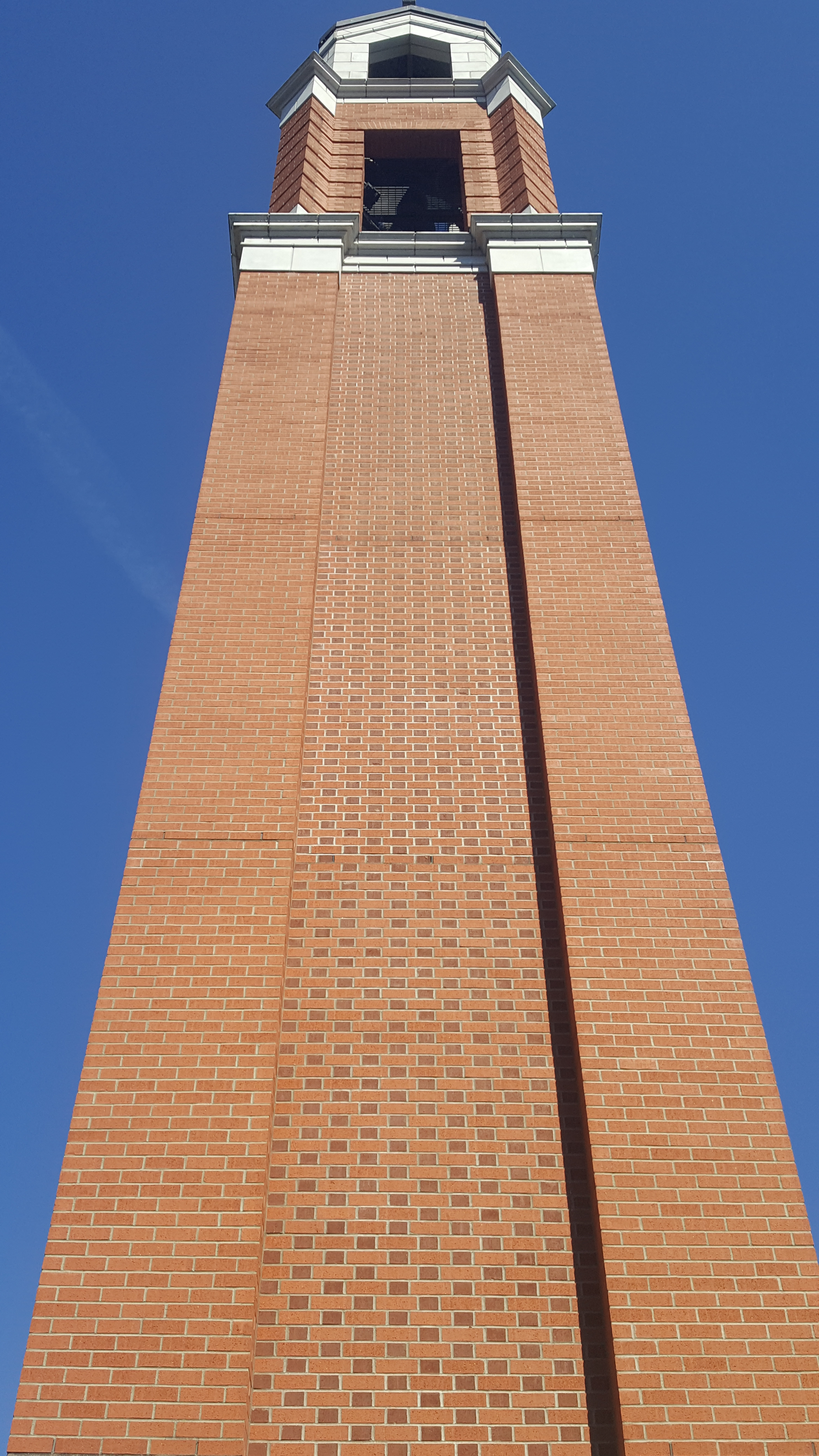 Bell Tower, University of Portland (2018)